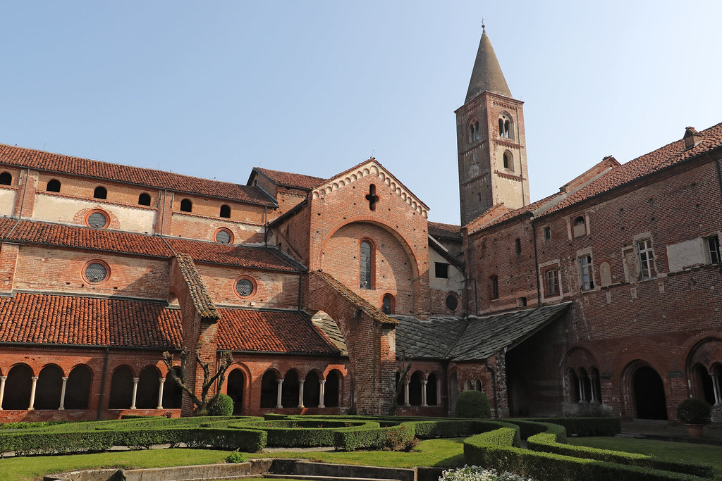 Revello